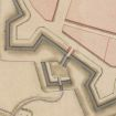 Fortifikation of Sluck, Belarus